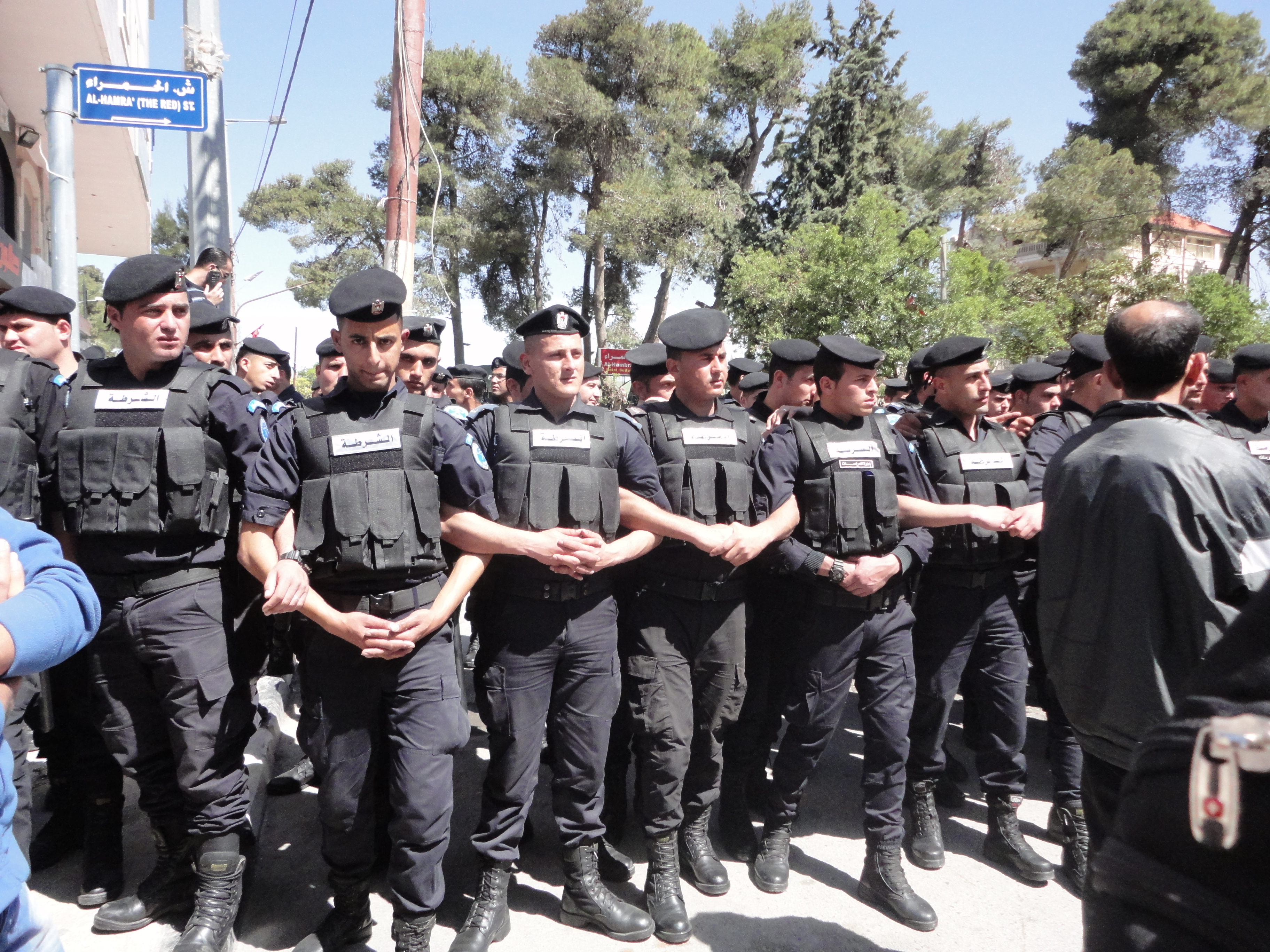 Demonstration against Obama's visit to Palestine in Ramallah. March 21st, 2013.